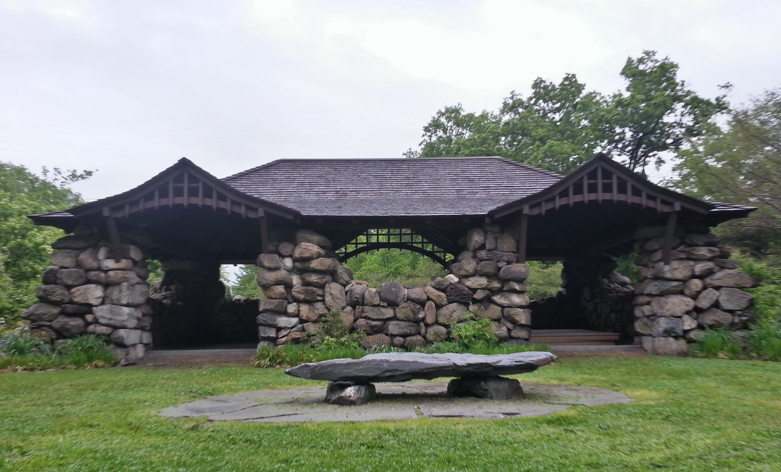 The Swan Point Trolley Shelter is located opposite 585 Blackstone Boulevard (across from the entrance to Swan Point Cemetery) in Providence, RI. It was built in 1904 and was heavily used until the streetcar system was abandoned in 1946. It was added to the National Register of Historic Places as part of the Blackstone Park Historic District